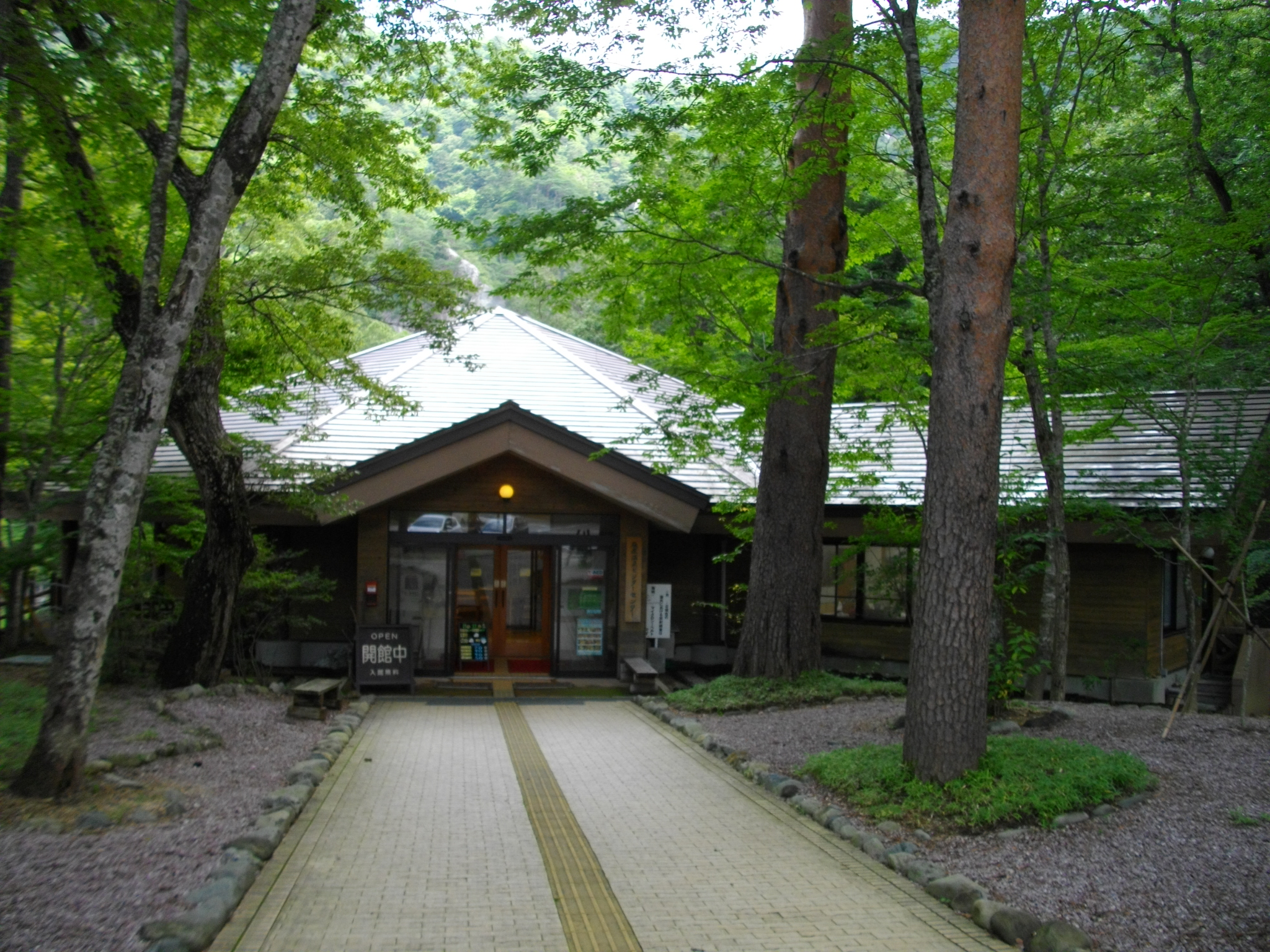 Shiobara Onsen Visitor Center